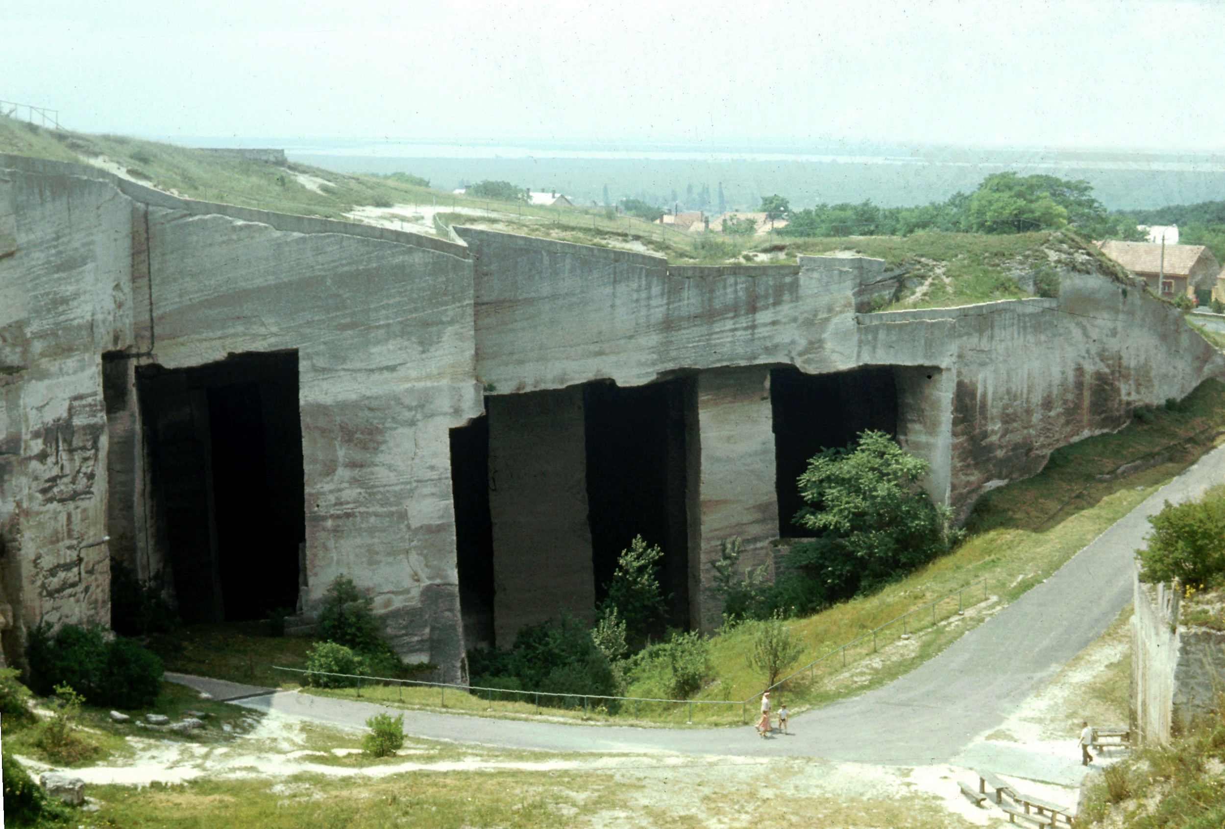 Fertőrákos, the Roman quarry